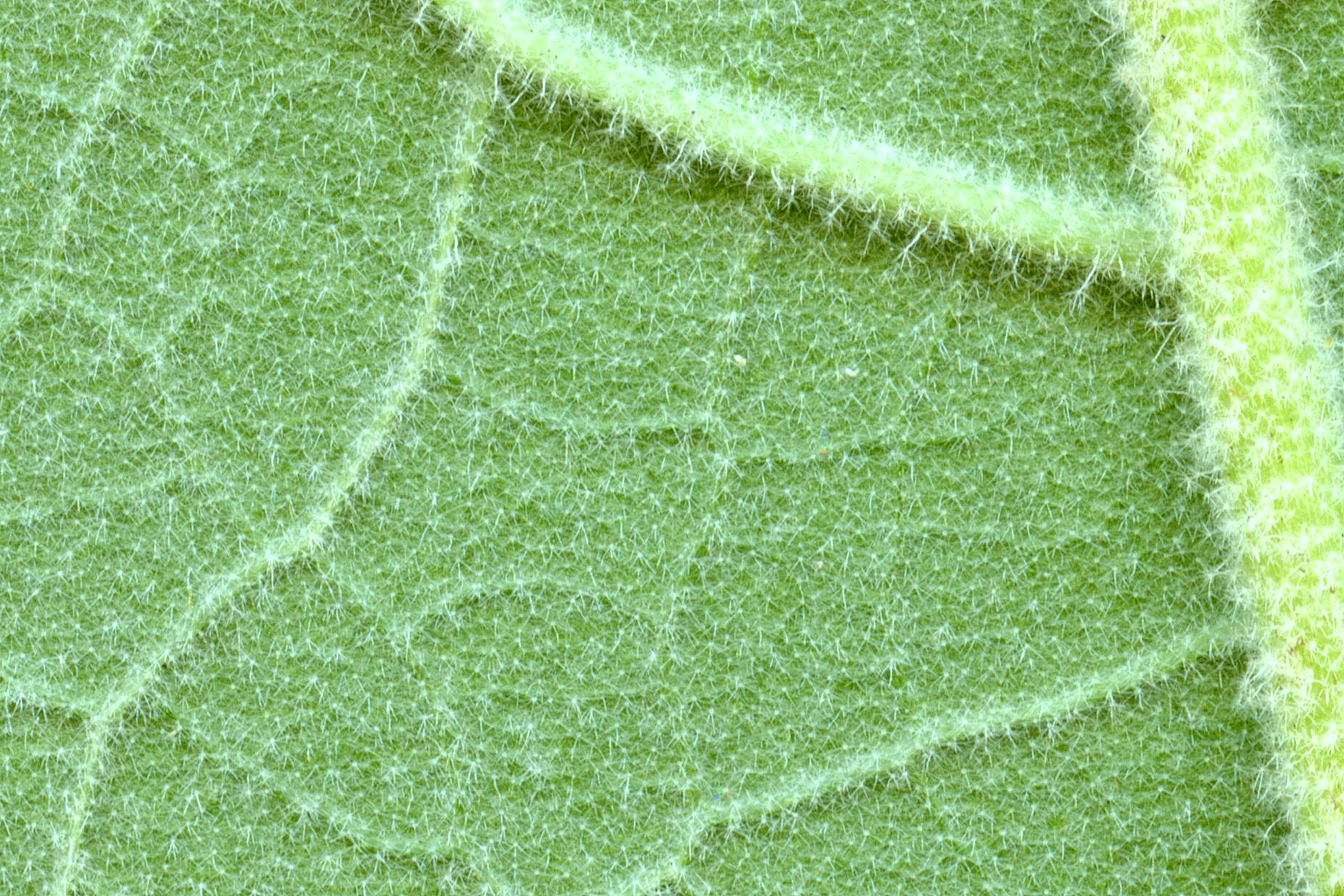 Detail of a scanned leaf of Solanum mauritianum (lower side) displaying the stellate hairs (real width of the picture : about 5 mm)